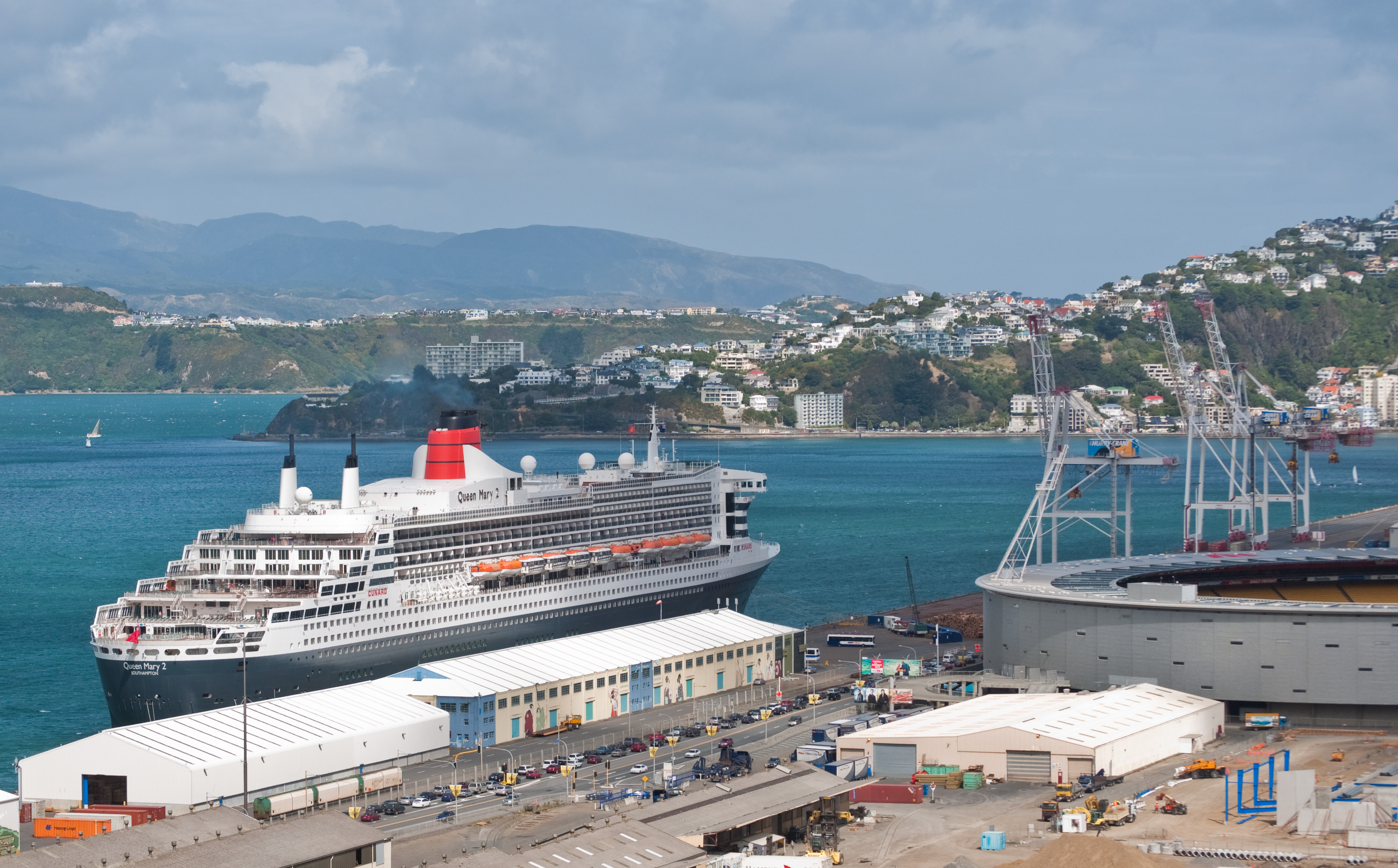 'Queen Mary 2', Wellington, New Zealand, 26th. Feb. 2011